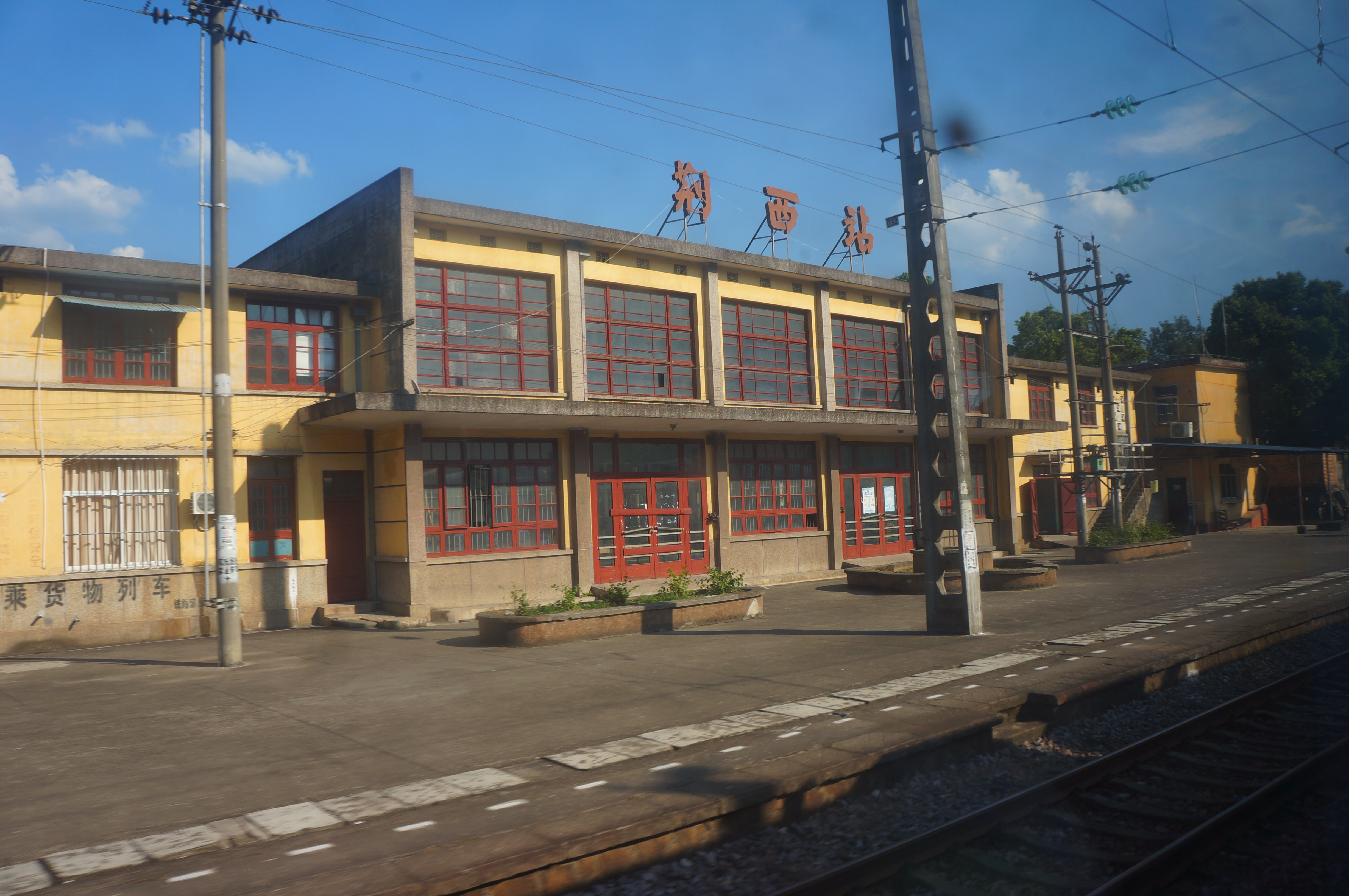 There are Jingxi and Jingdong in Sanming.